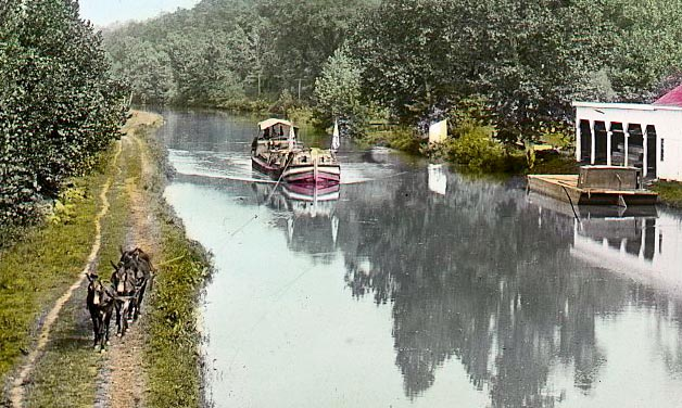 Cropped version of File:C&O Canal - 4226570680.jpg, original: here on Wikimedia commons.